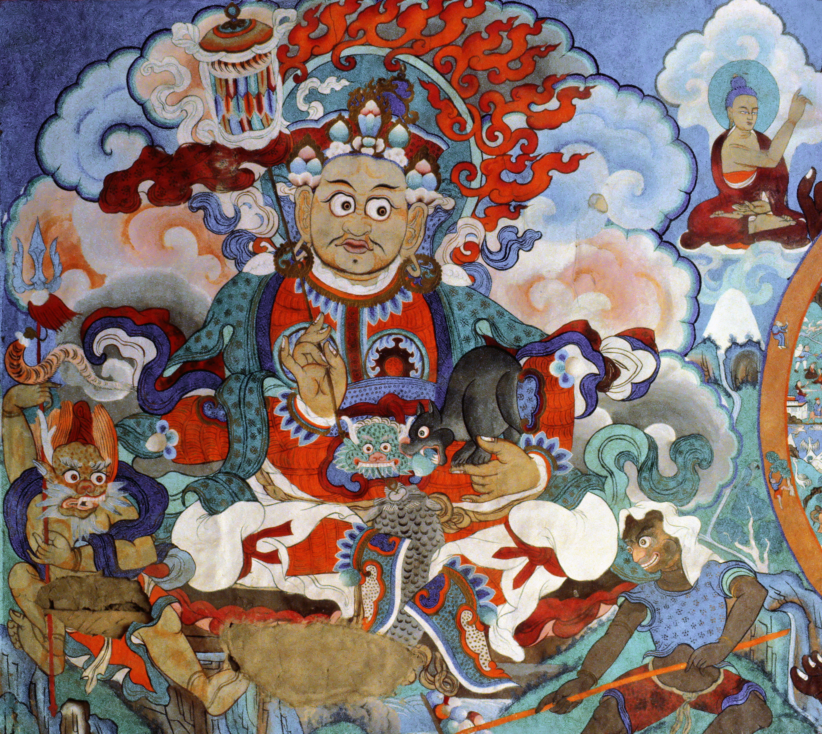 Mural painting in the Hemis gompa in Ladakh, India. Hemis gompa is a Tibetan Buddhist monastery of the Drukpa Lineage, established in 1672 by the Ladakhi king Senge Namgyal.